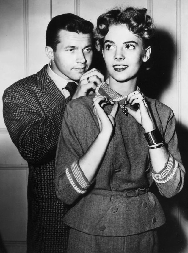 Photo of Natalie Wood at age 16 and Tom Bernard from the television program The Pride of the Family. Wood played the teen daughter on the show.